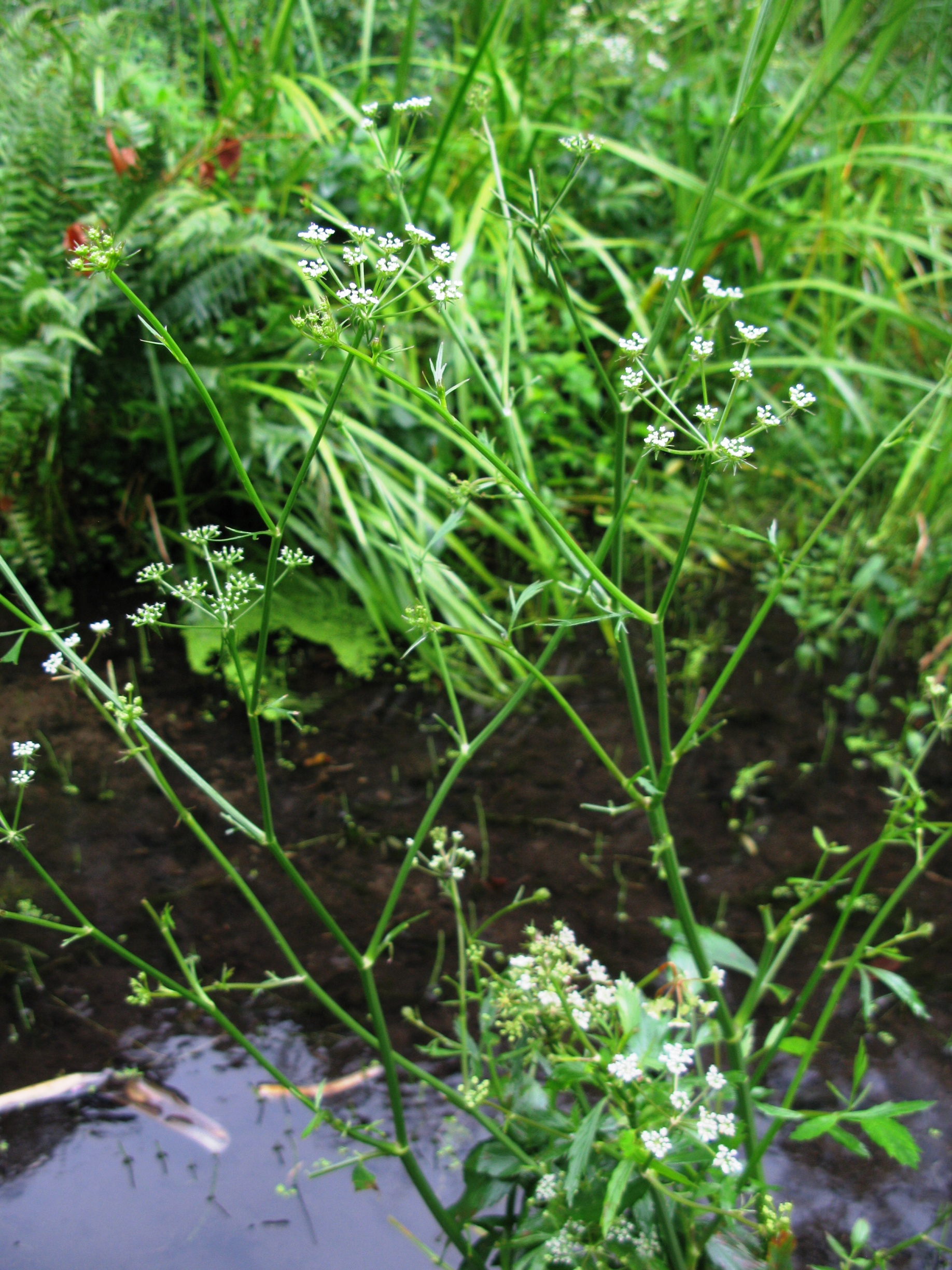 Sium suave var. nipponicum, Botanical Gardens, Nikko, Graduate School of Science, The University of Tokyo, Tochigi pref., Japan